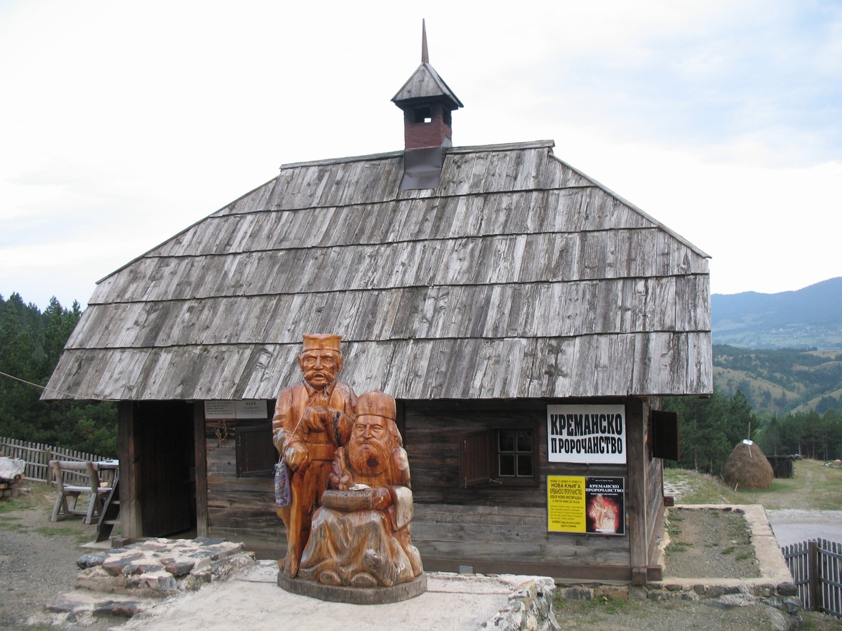 Memorial complex of clairvoyant Tarabići in Kremna near Užice, Serbia.